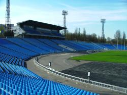 Stadium "Meteor"